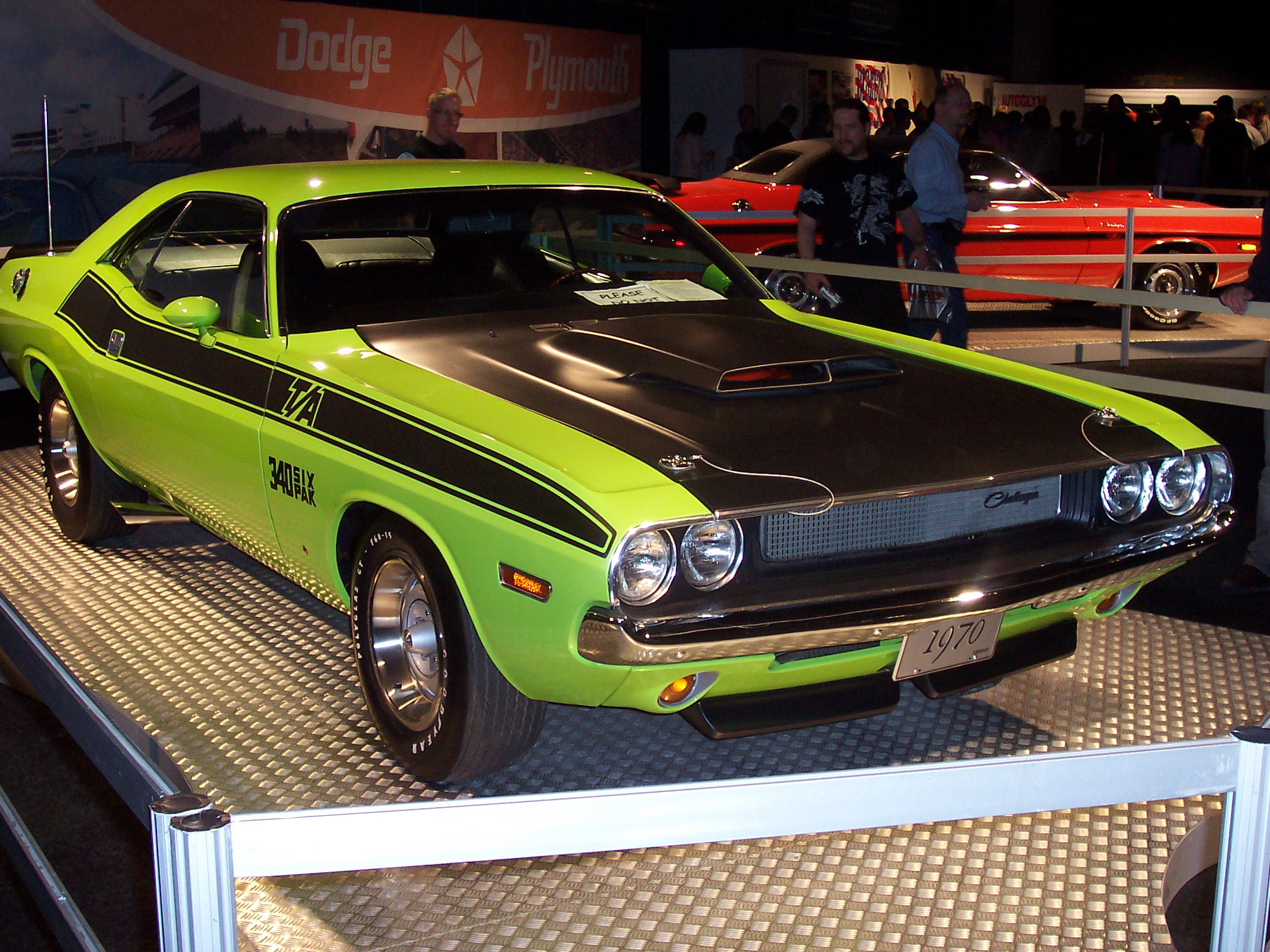 1970 Dodge Challenger.